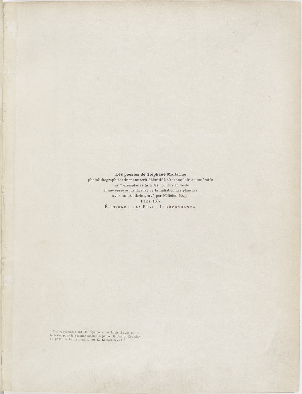 Title page of the Poésies of Stéphane Mallarmé (1887). Edited to remove library stamps from Gallica page scan by Yodin